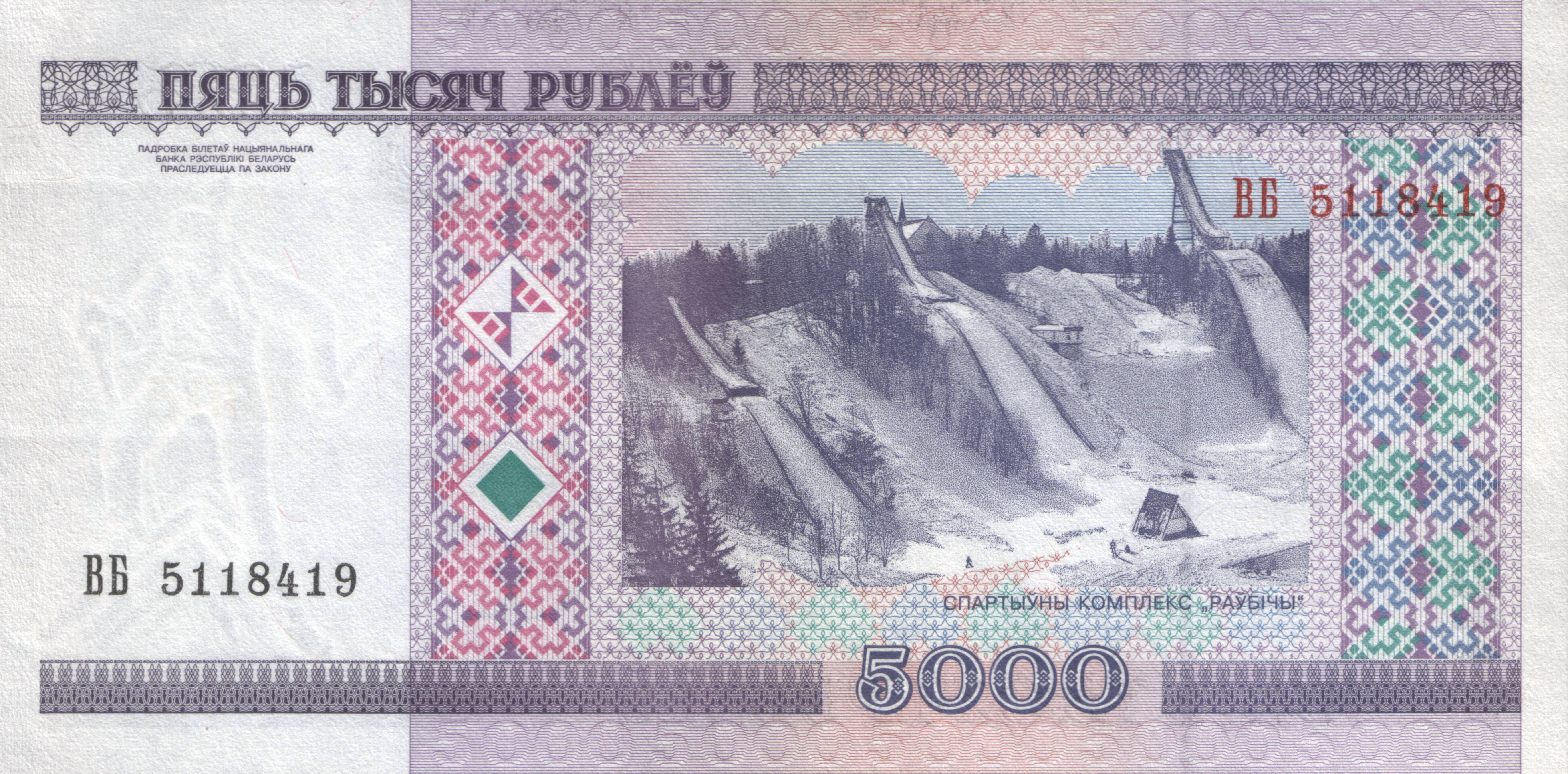 5000 roubles of Belarus (2000)